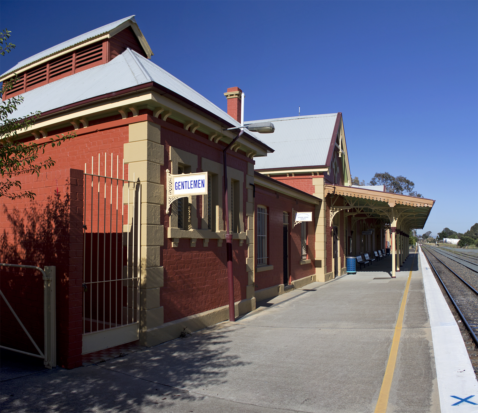 Queanbeyan Railway Station.